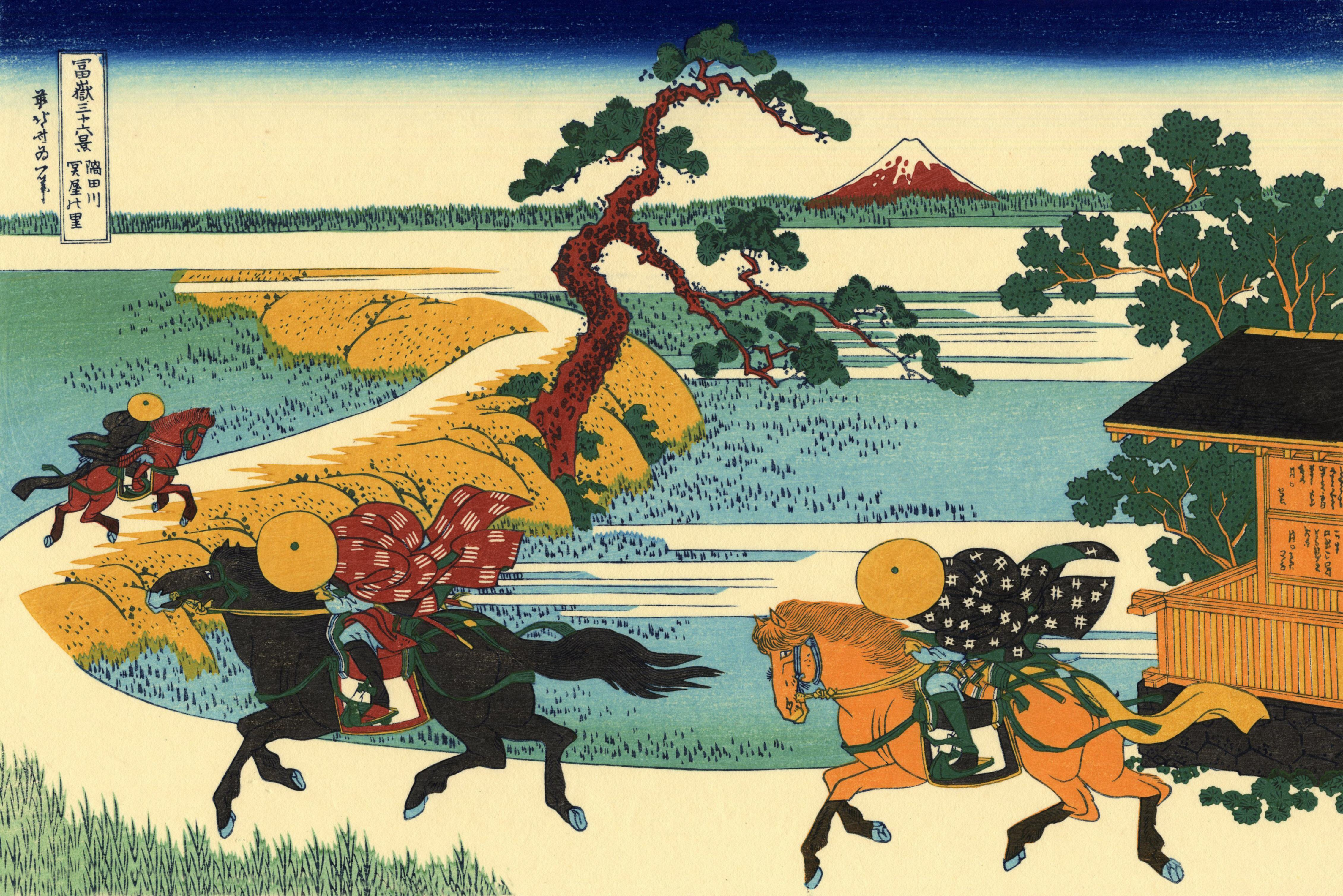 Part of the series Thirty-six Views of Mount Fuji, no. 13.